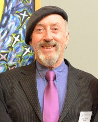 Sir Jon Trimmer, at a reception for the 60th anniversary of the Royal New Zealand Ballet, at Government House, Auckland, on 20 August 2013.